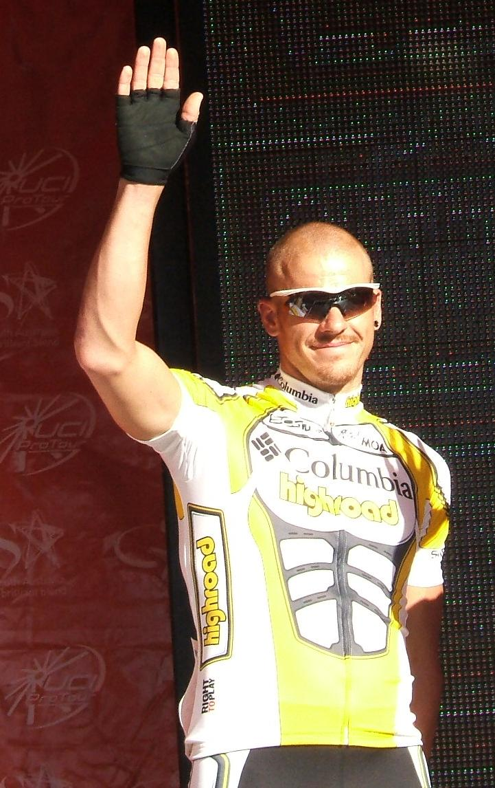 Named cyclist at the en:2009 Tour Down Under team presentation